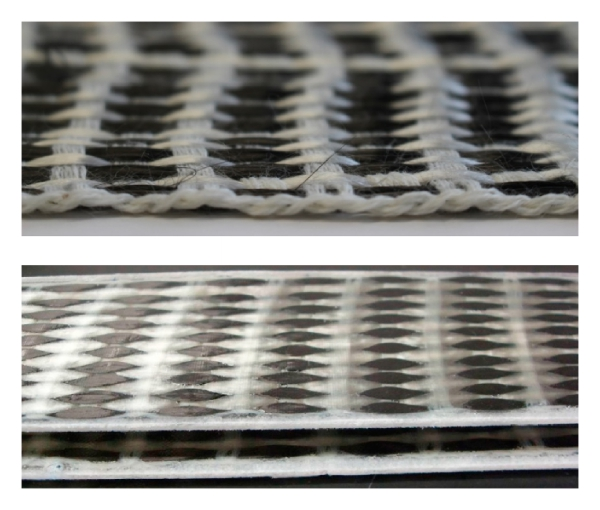 Smart textile before and after the lamination.